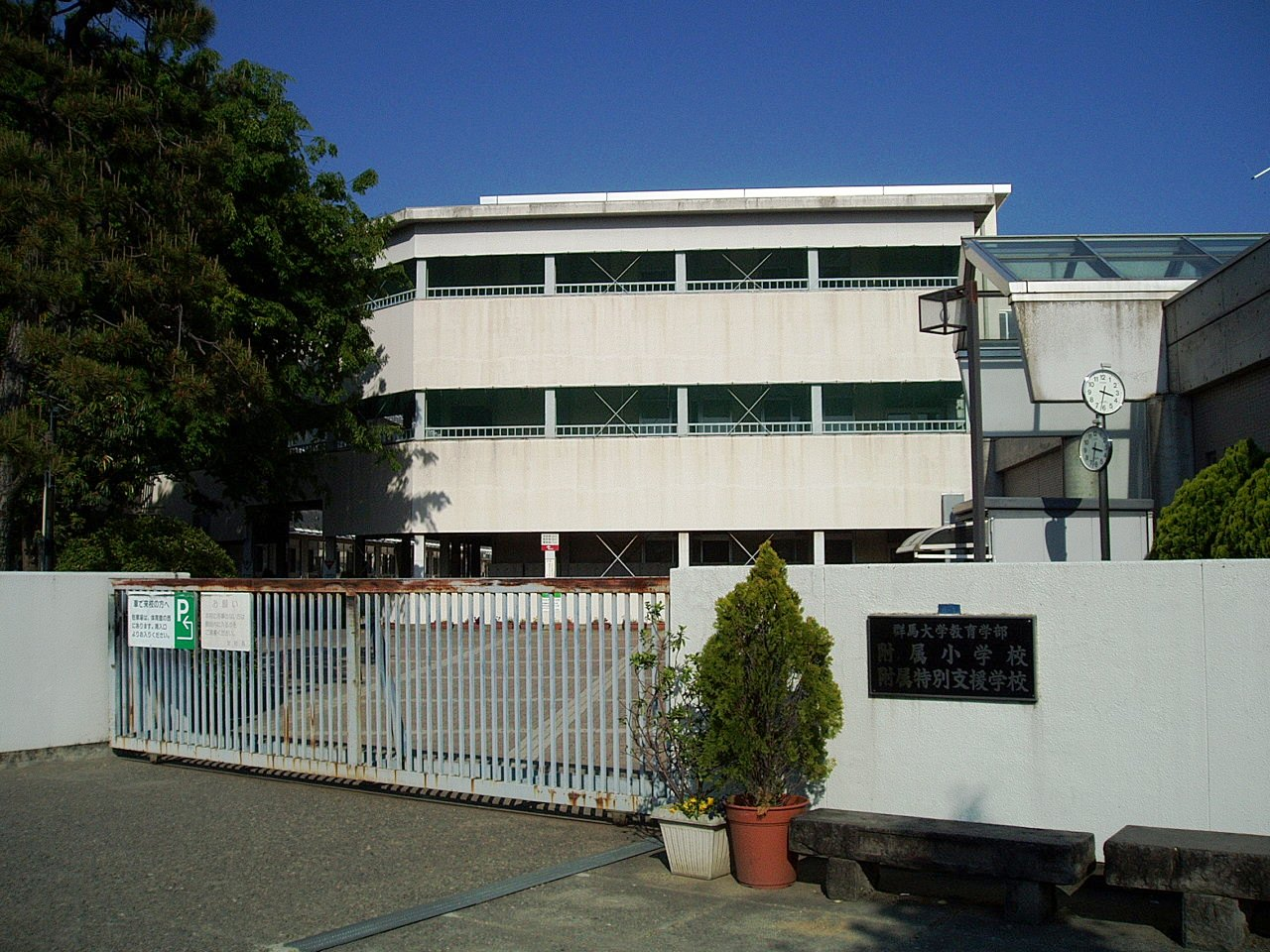 Entrance to the Affiliated Schools (Elementary School and School for Handicapped Children[1]) of Gunma University, located in Maebashi, Gunma, Japan.